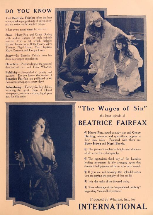 Advertisement in Moving Picture World for the American film serial Beatrice Fairfax.